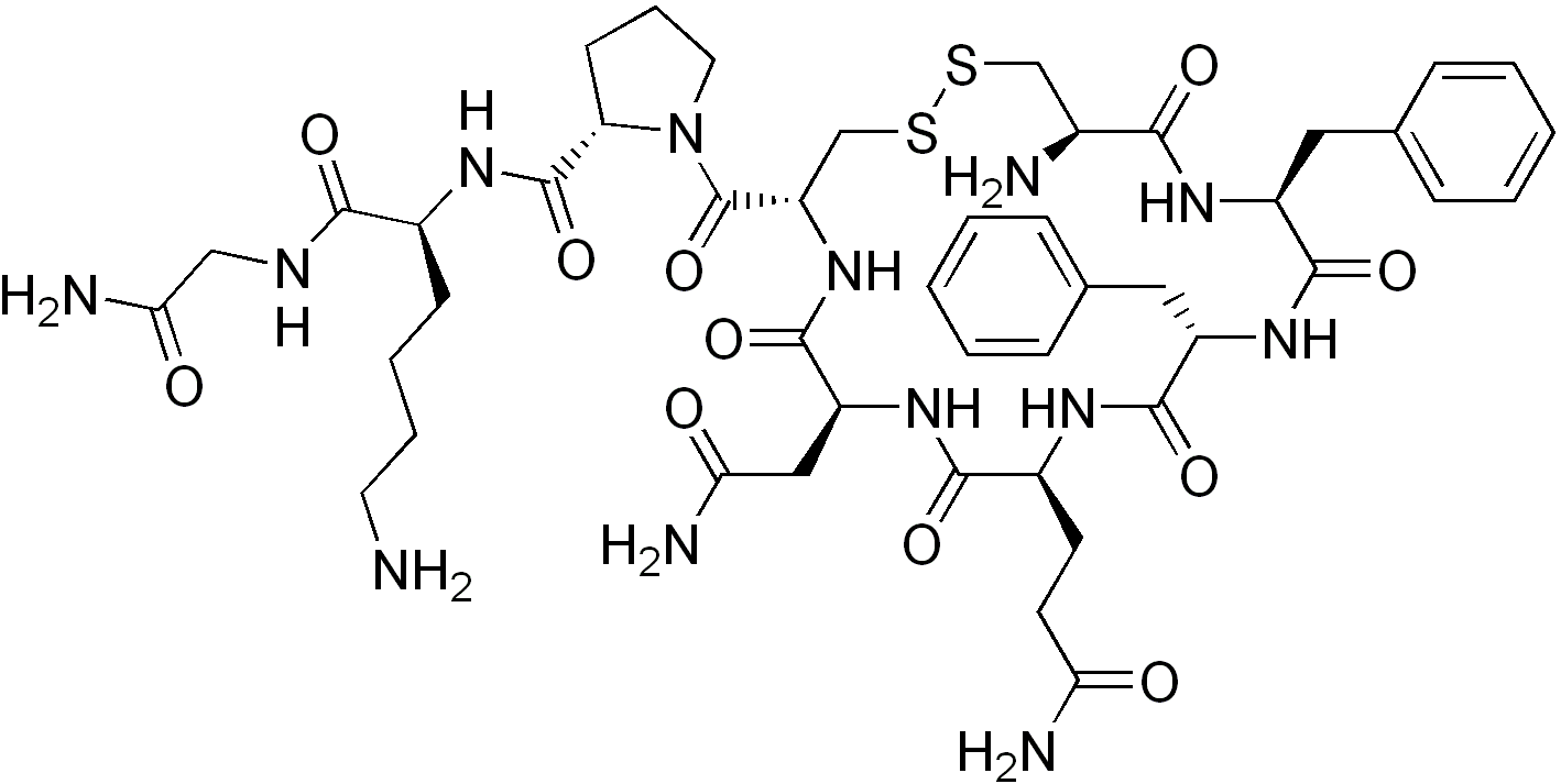 chemical structure of felypressin